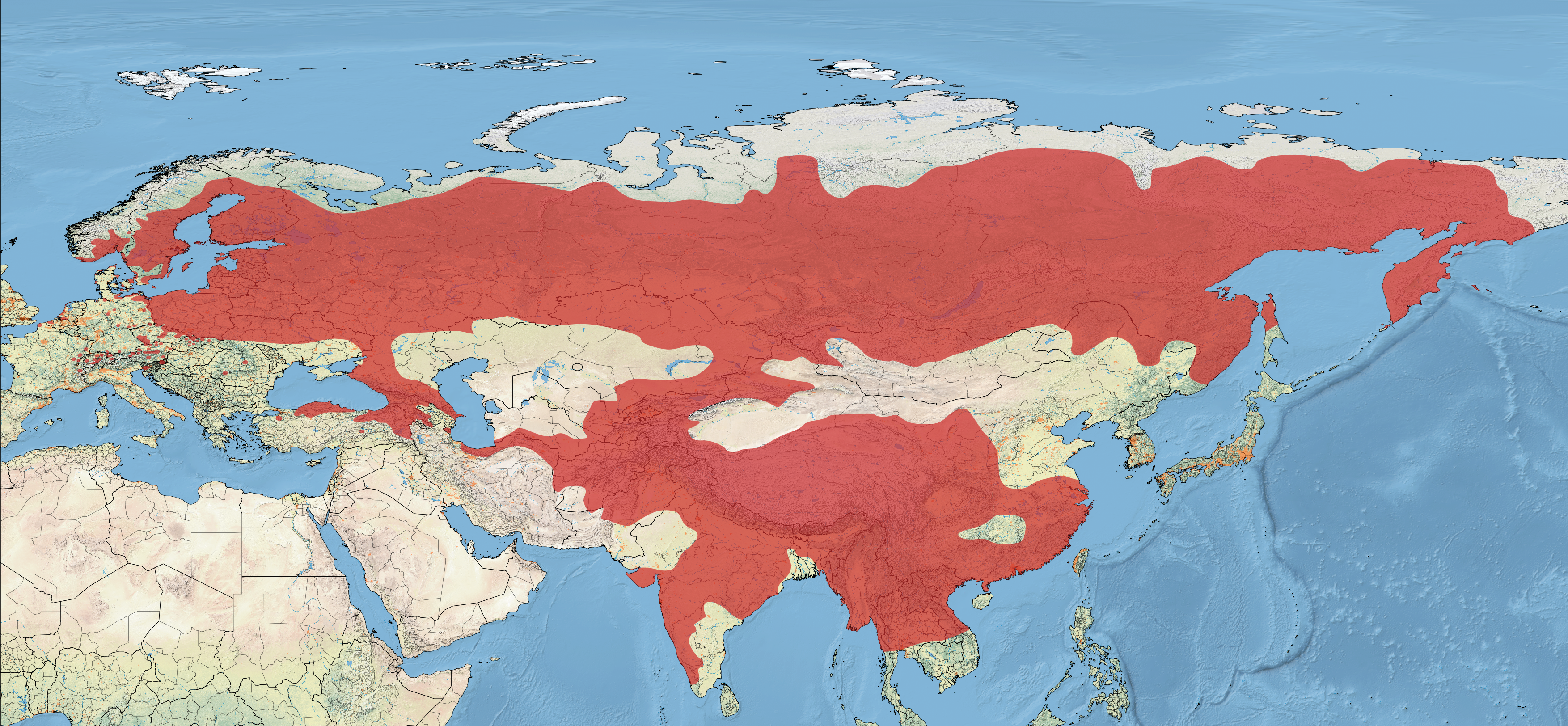 The distribution of the Common Rosefinch (Carpodacus erythrinus), as according to the IUCN Red List. Map and boundary data from Natural Earth